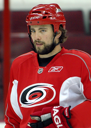 Tuomo Ruutu of the Carolina Hurricanes practices on the ice prior to Game 6 of the Eastern Conference Semifinals on May 12, 2009.